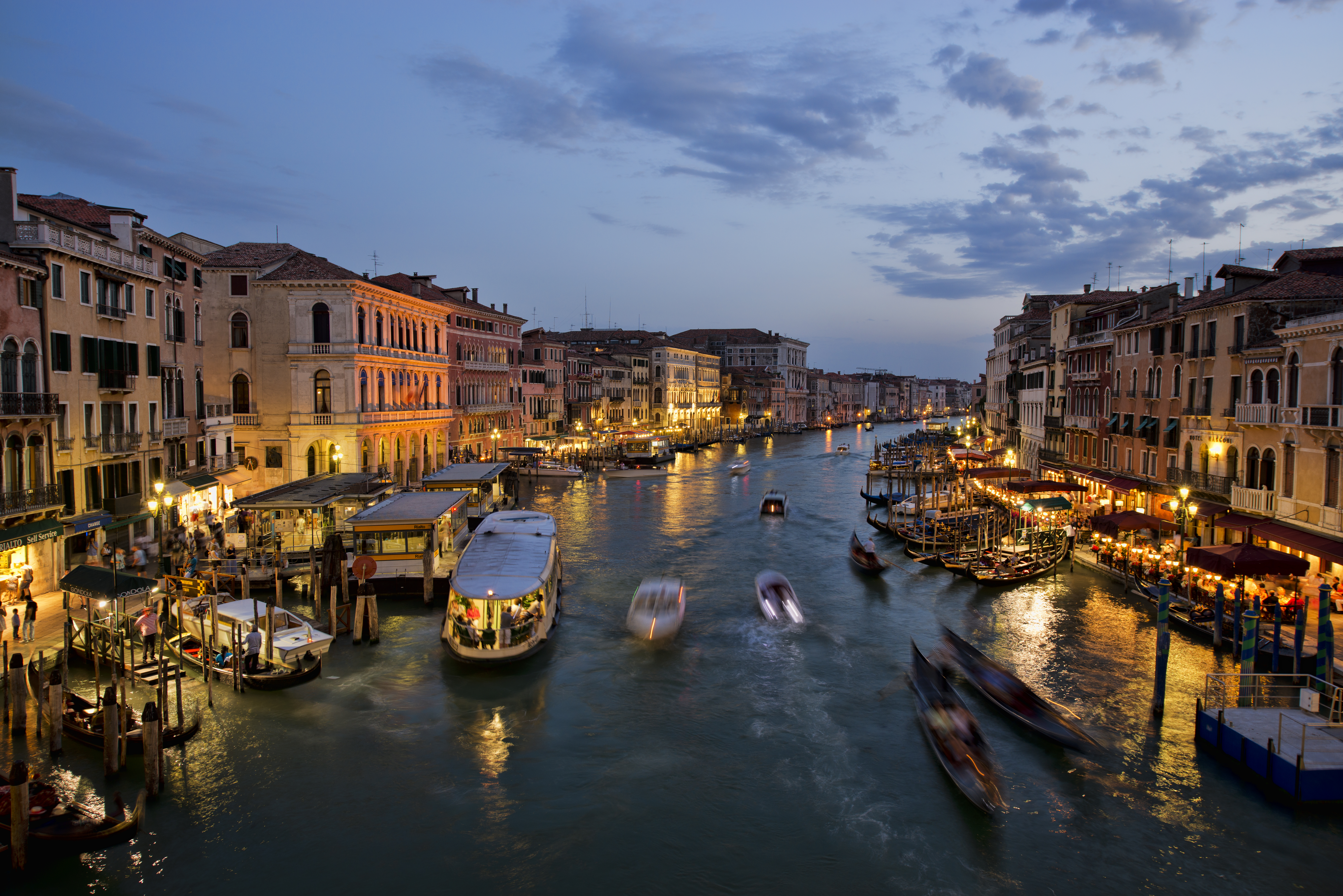 venice grand canal rialto bridge 2012 evening italy